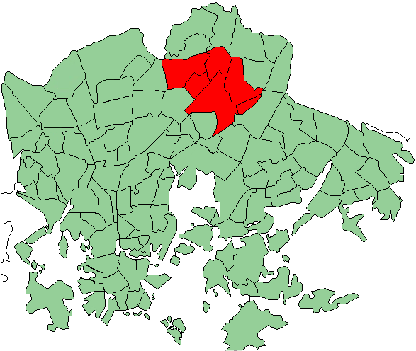 Districts of Helsinki, Malmi district highlighted (in Finnish: Malmin peruspiiri). See also File:Helsinki districts-Malmi2.png